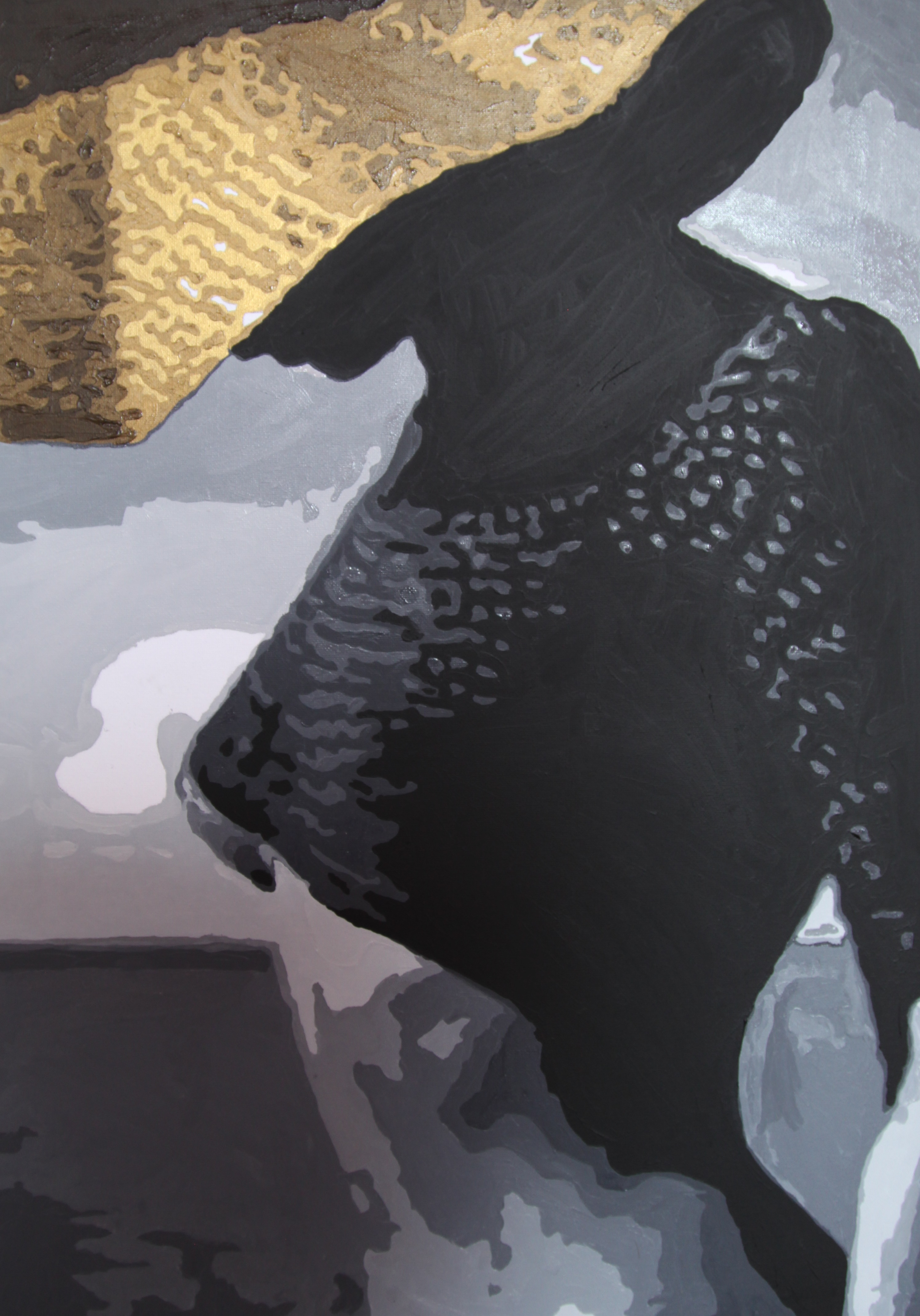 Technique mixte, vendu à une collectionneuse Mozambicaine d'art.